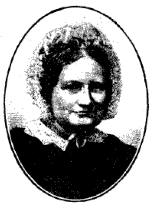 Portrait of Ulrika von Strussenfelt (1801-1873), Swedish author